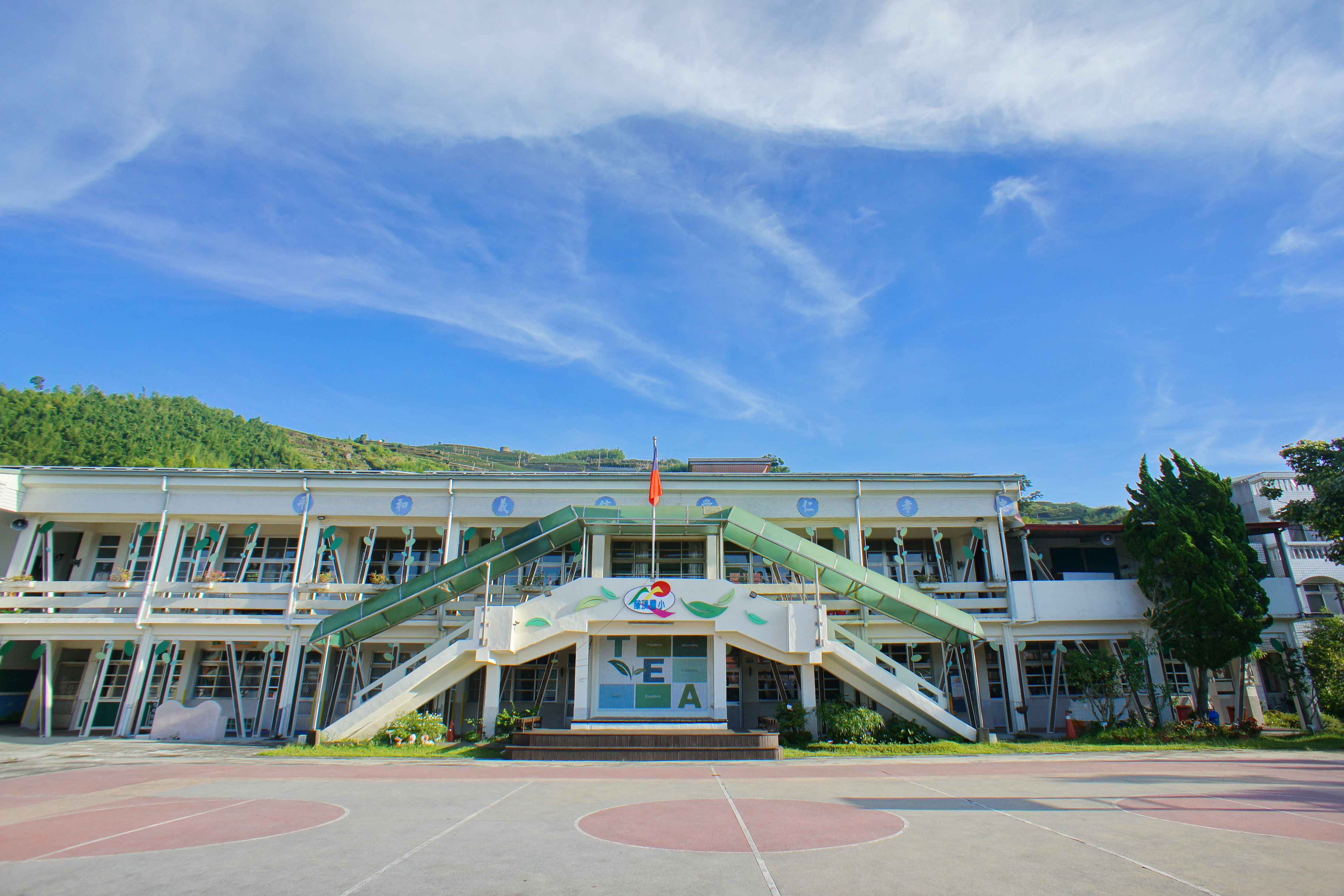 Siding Elementary School,Gongtian Village,Fanlu Township,Chiayi County,Taiwan.